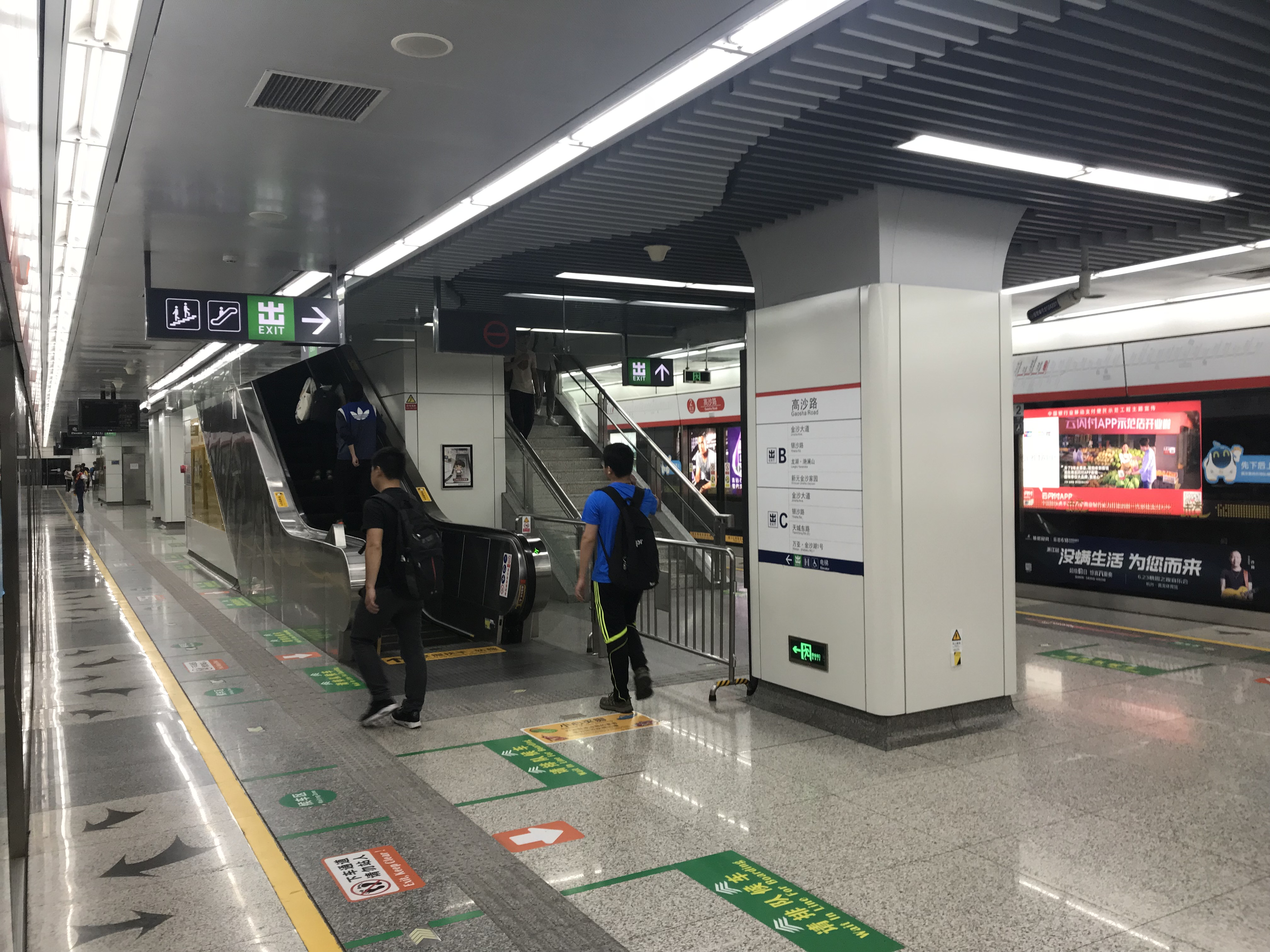 201806 Gaosha Road Station